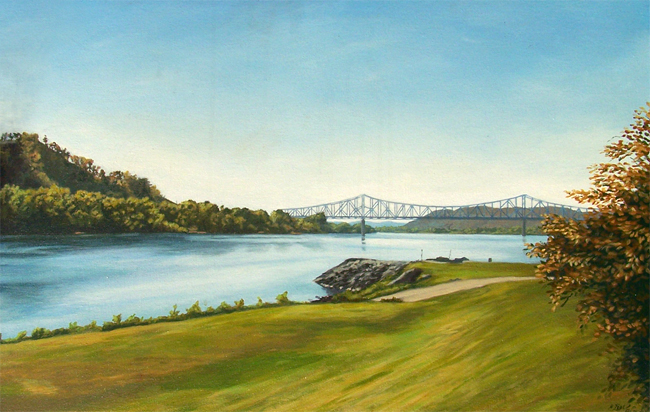 A view of the confluence of the Ohio and Scioto Rivers in Portsmouth, Ohio The Carl Perkins Bridge is in the background. An original acrylic painting.